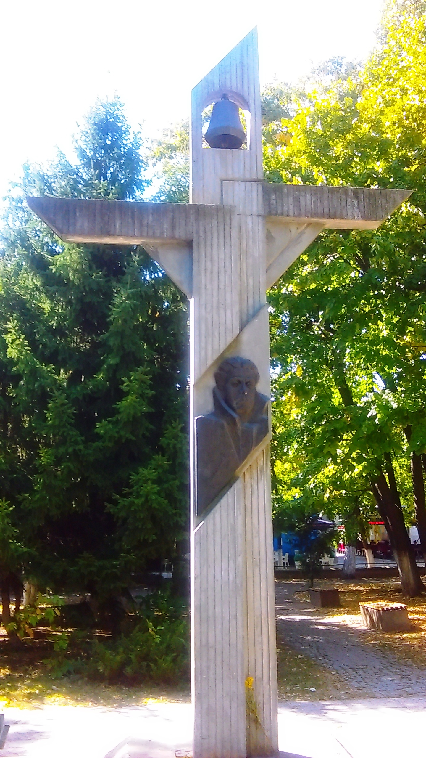 Vasil Levski memorial in Kubrat town